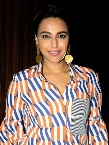 Swara Bhaskar in 2017.